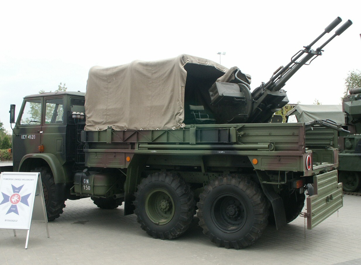 Polish Hibneryt anti-aircraft vehicle (Star 266 truck with ZU-23 23 mm gun).